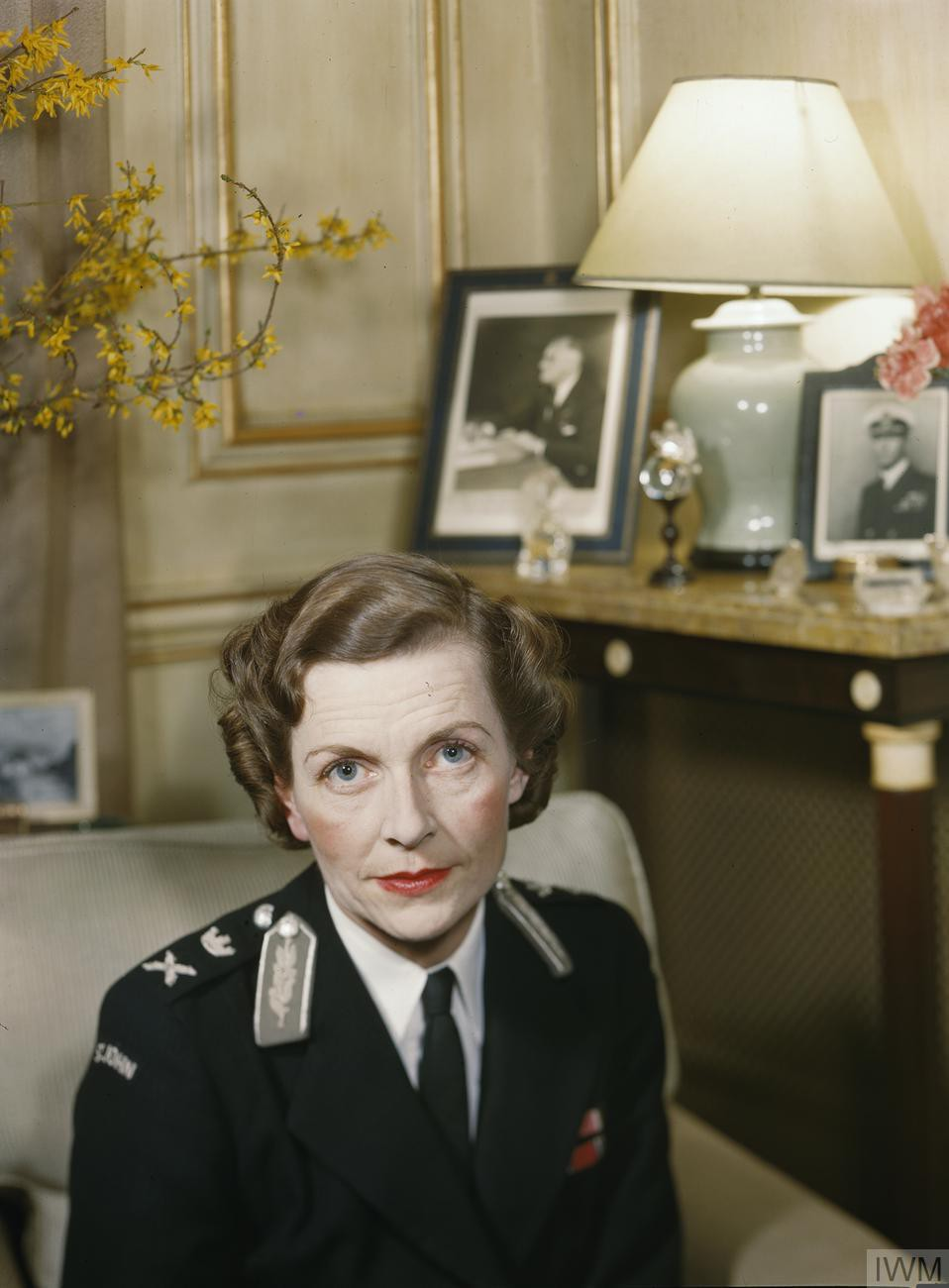 Women at War 1939-1945 Nursing: Close-up of Lady Mountbatten, wearing the uniform of the St John's Ambulance Brigade, sitting in the drawing room of her house in Belgrave Square, London.